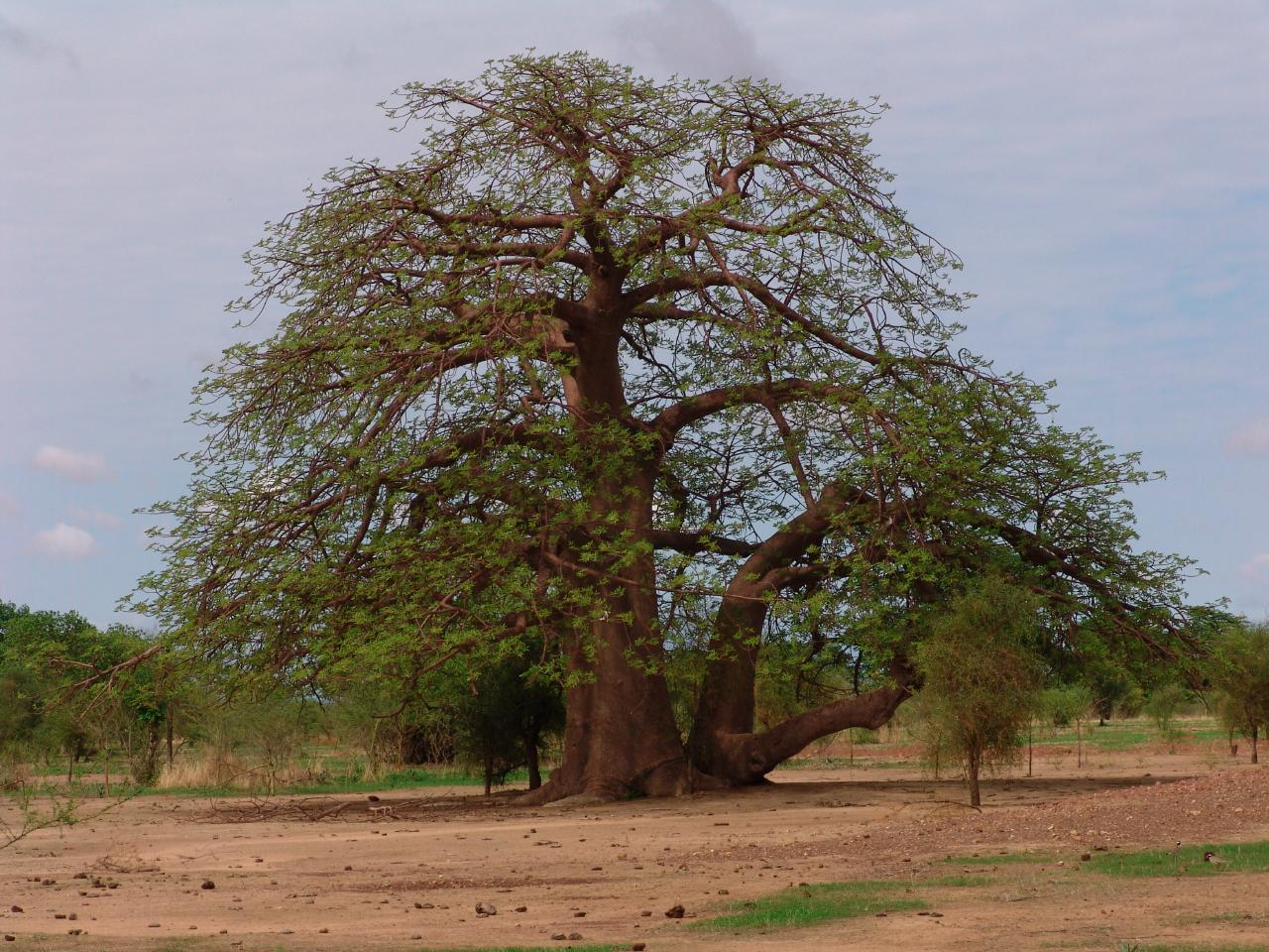 A Baobab tree, Adansonia digitata, and Acacia trees and other plants of the Sahel sub-Saharan savanna on the way to Kayes, Mali.